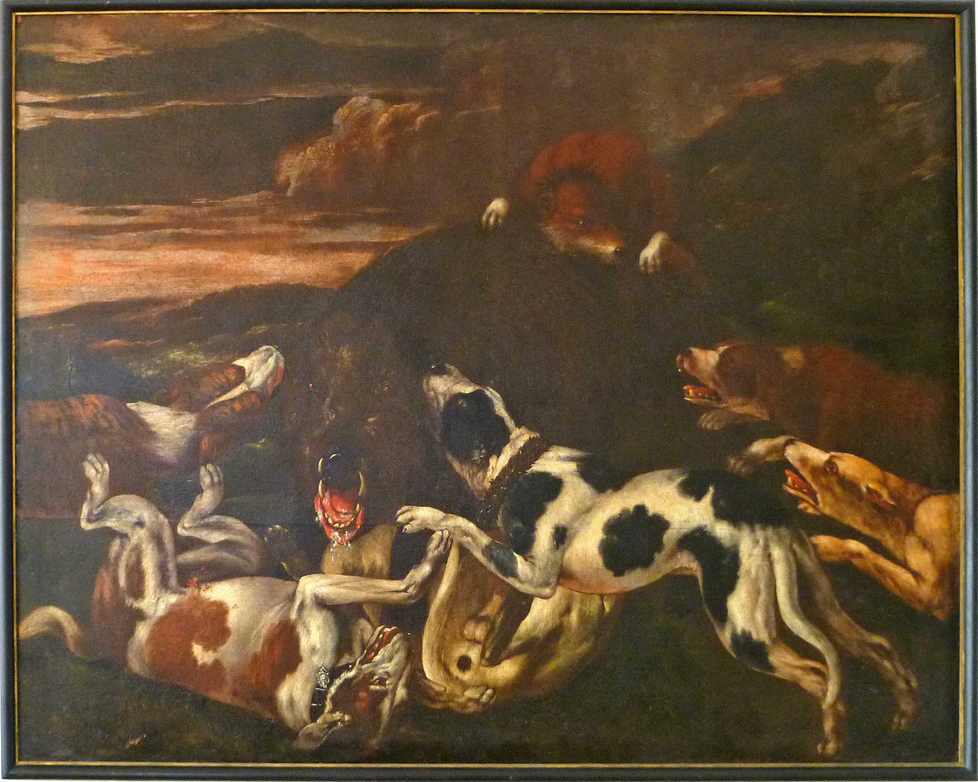 Painting of boar hunting (17th century), Moritzbur Castle, Moritzburg, Saxony, Germany